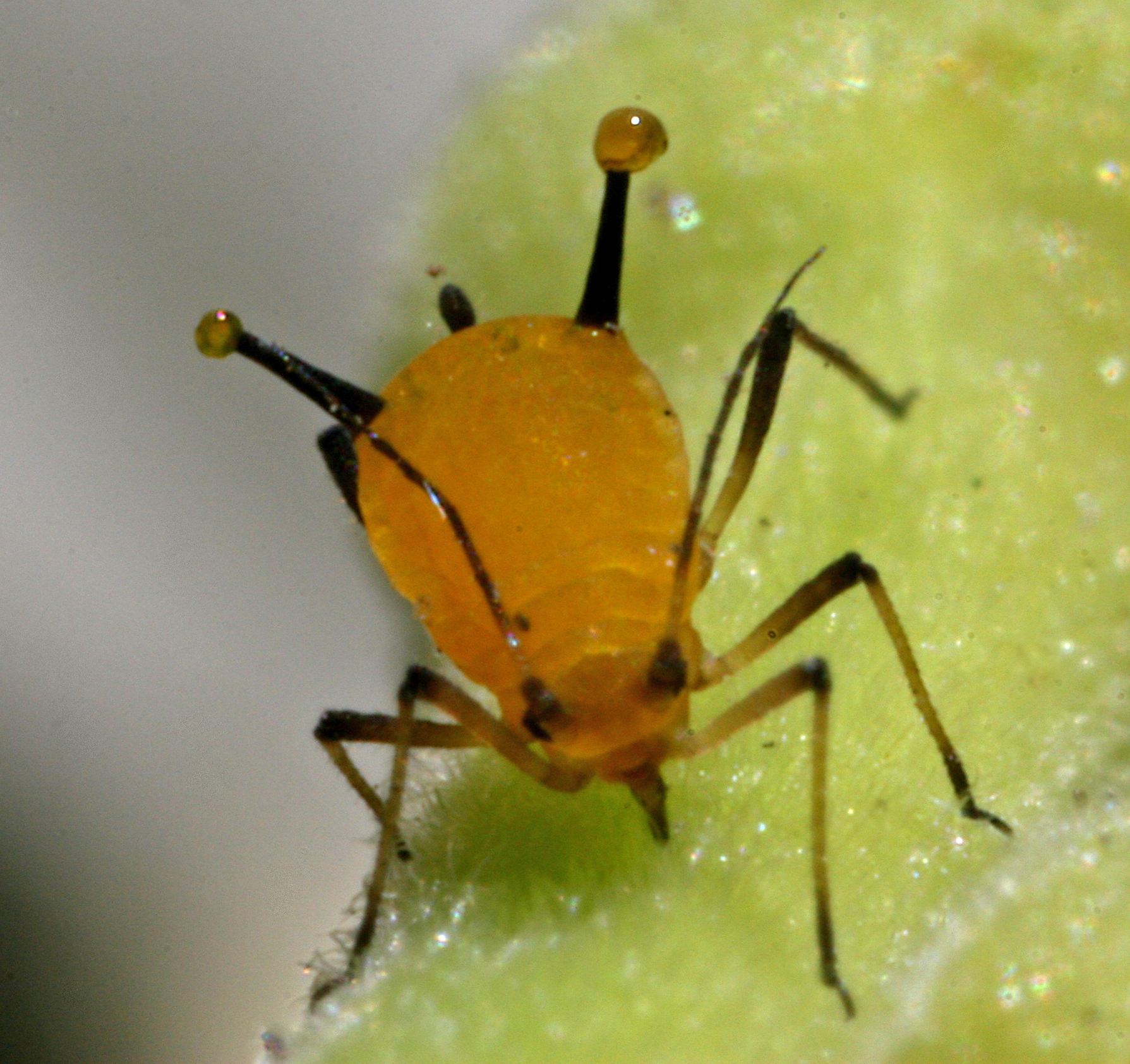 Aphid feeding on sap